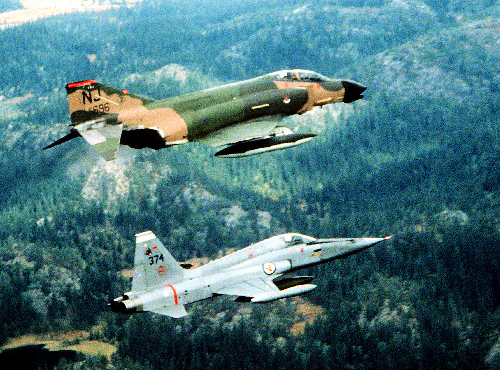 Blowup of Caption: "An air-to-air right side view of a New Jersey Air National Guard F-4 Phantom II aircraft flying in close formation with a NORWEGIAN Air Force F-5A "Freedom Fighter" aircraft during exercise Coronet Rawhide. Camera Operator: SSGT MARVIN LYNCHARD Date Shot: 1 Sep 1982 "